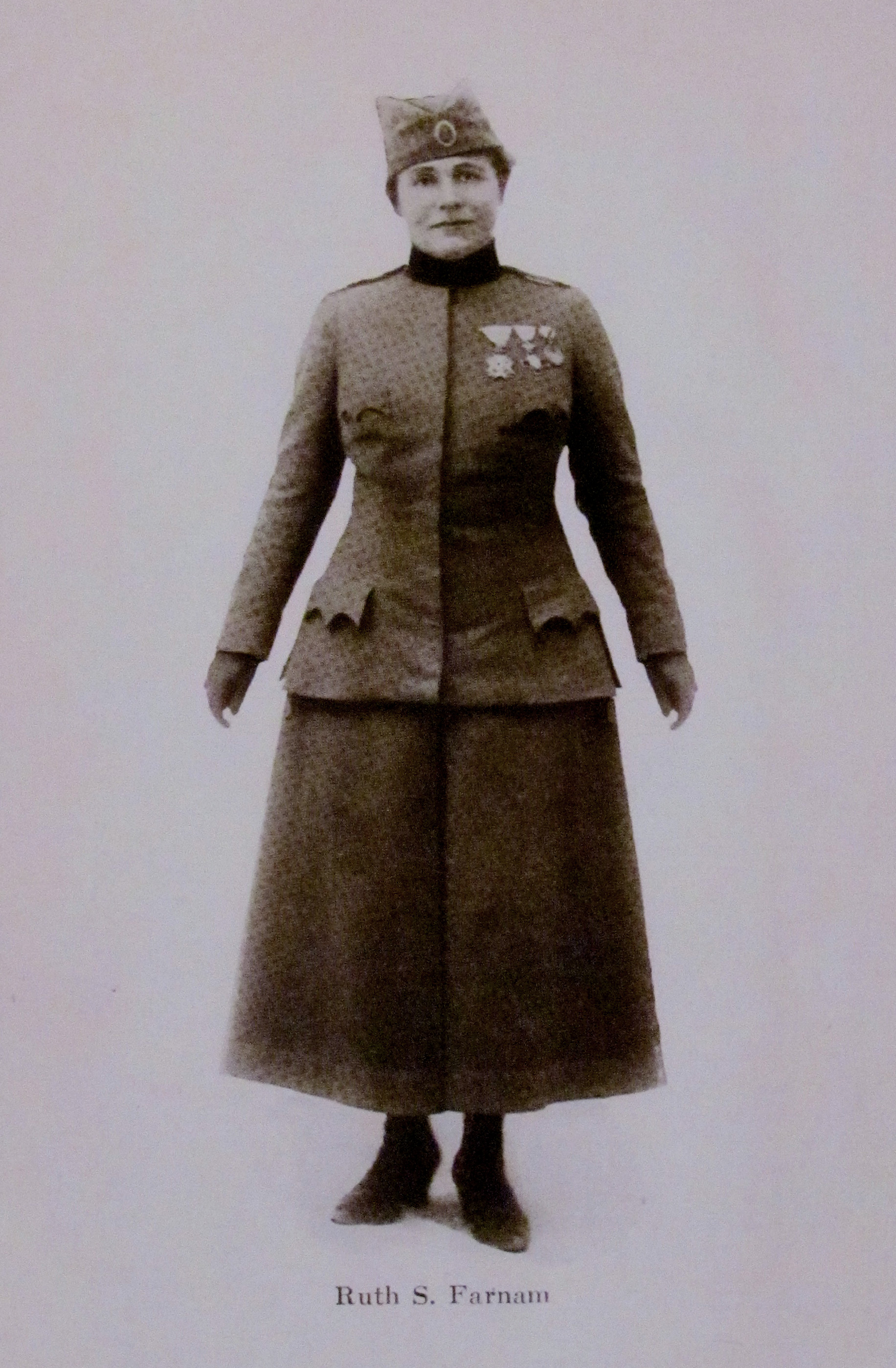 Ruth Stanley Farnam in Serbian Army Uniform